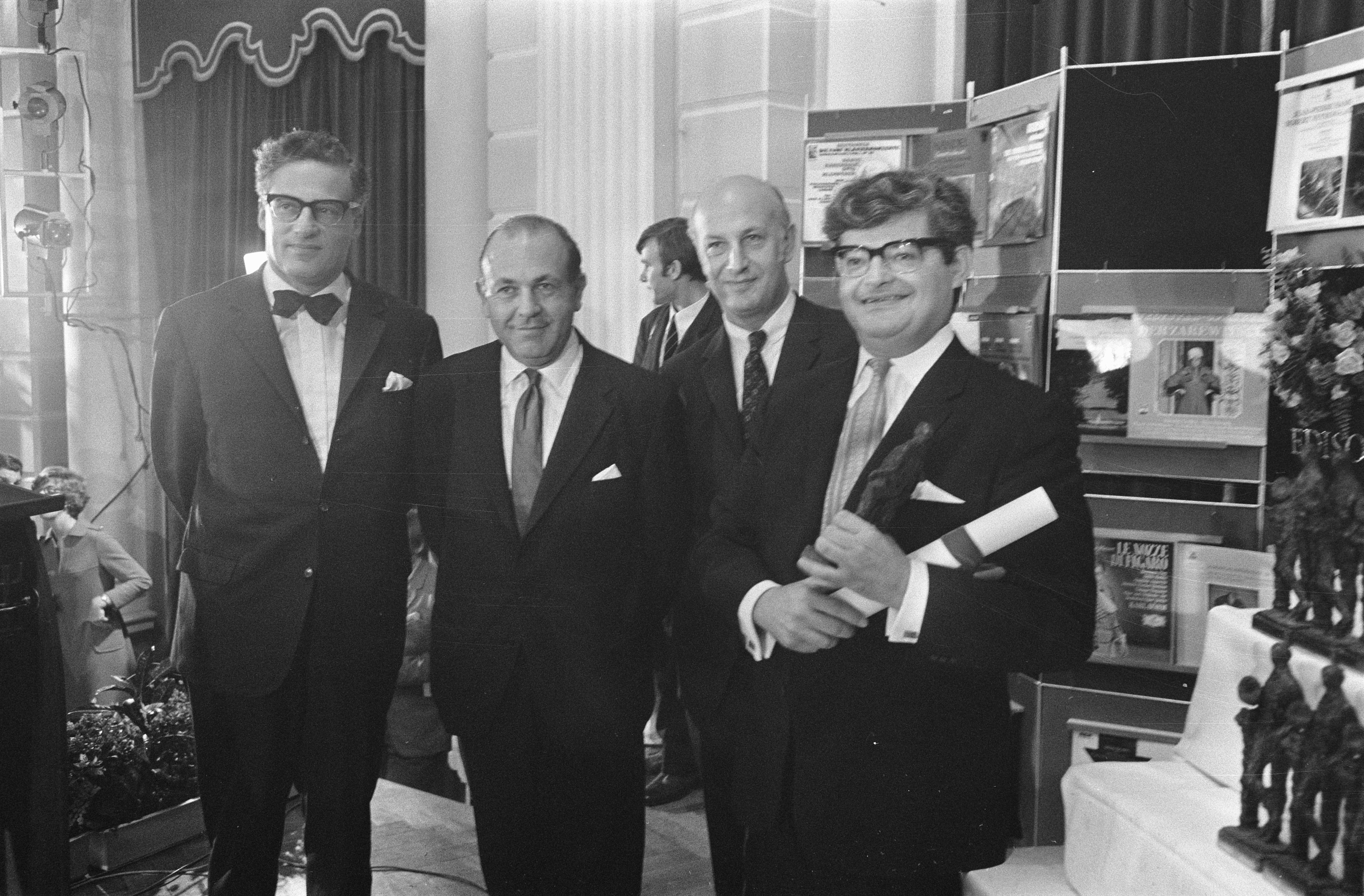 Amadeus Quartet (Concertgebouw Amsterdam, 1969). Left to right: Martin Lovett, Siegmund Nissel, Peter Schidlof, Norbert Brainin. Edison Prize classical music, 3 Oct. 1969